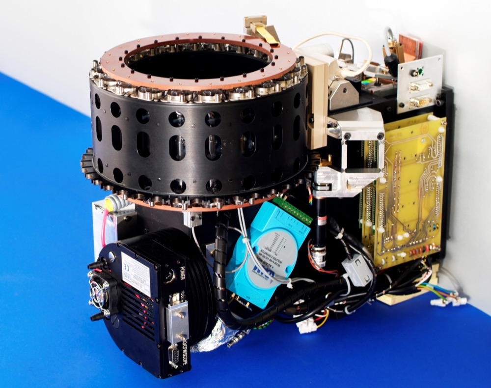 Carroussel of High Intensity Discharge lamps, part of the Arges research project of Eindhoven University of Technology, to be tested by astronaut André Kuipers in zero gravity during the 2004 Delta mission to the International Space Station.